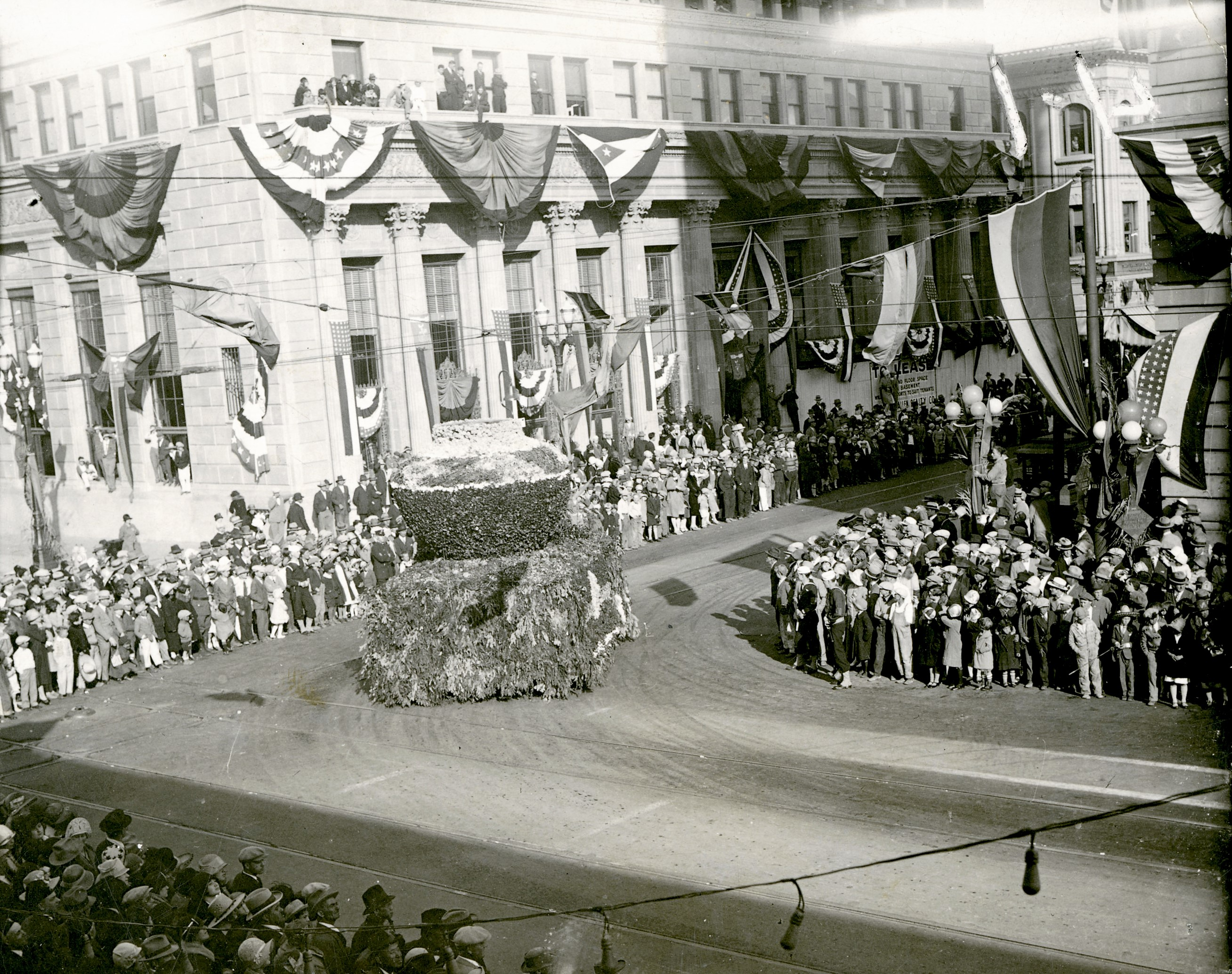 From the 1928 Fiesta de las Rosas photo album of Russell E. Pettit, 1902-1969